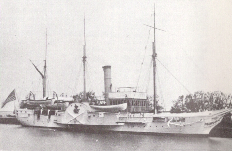 United States Navy sidewheel steamer USS Wolverine, ex-USS Michigan, in a Great Lakes port.